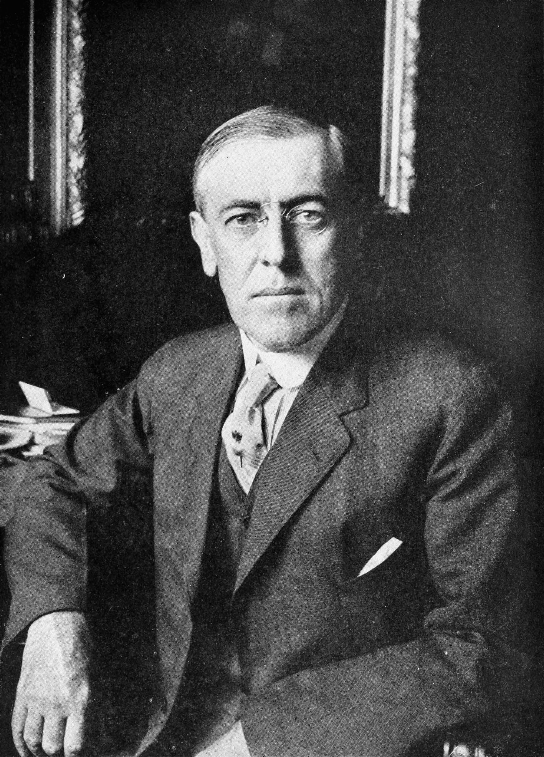 Portrait photograph of United States President Woodrow Wilson